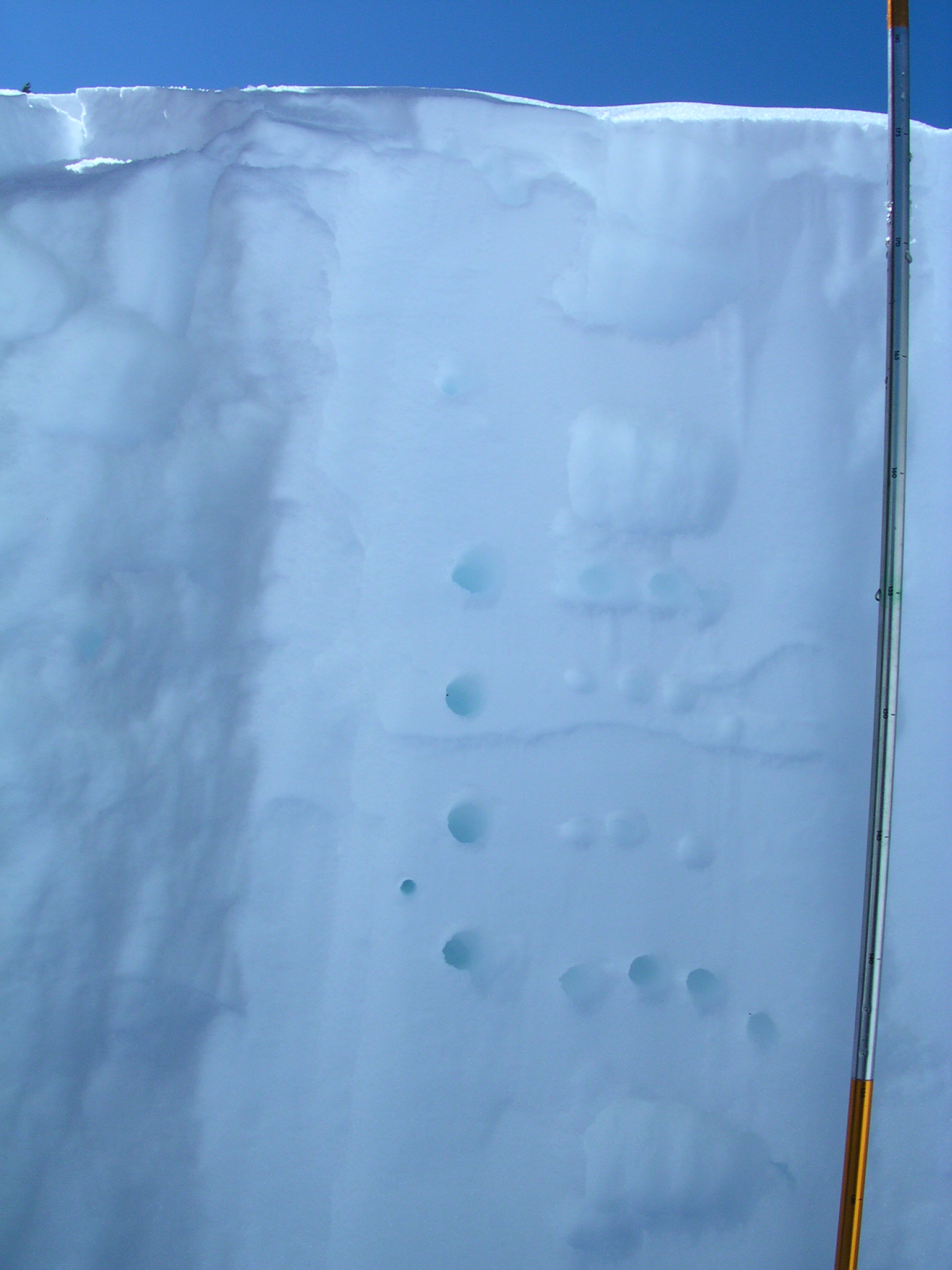 Schneeprofil